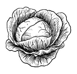 line art drawing of cabbage